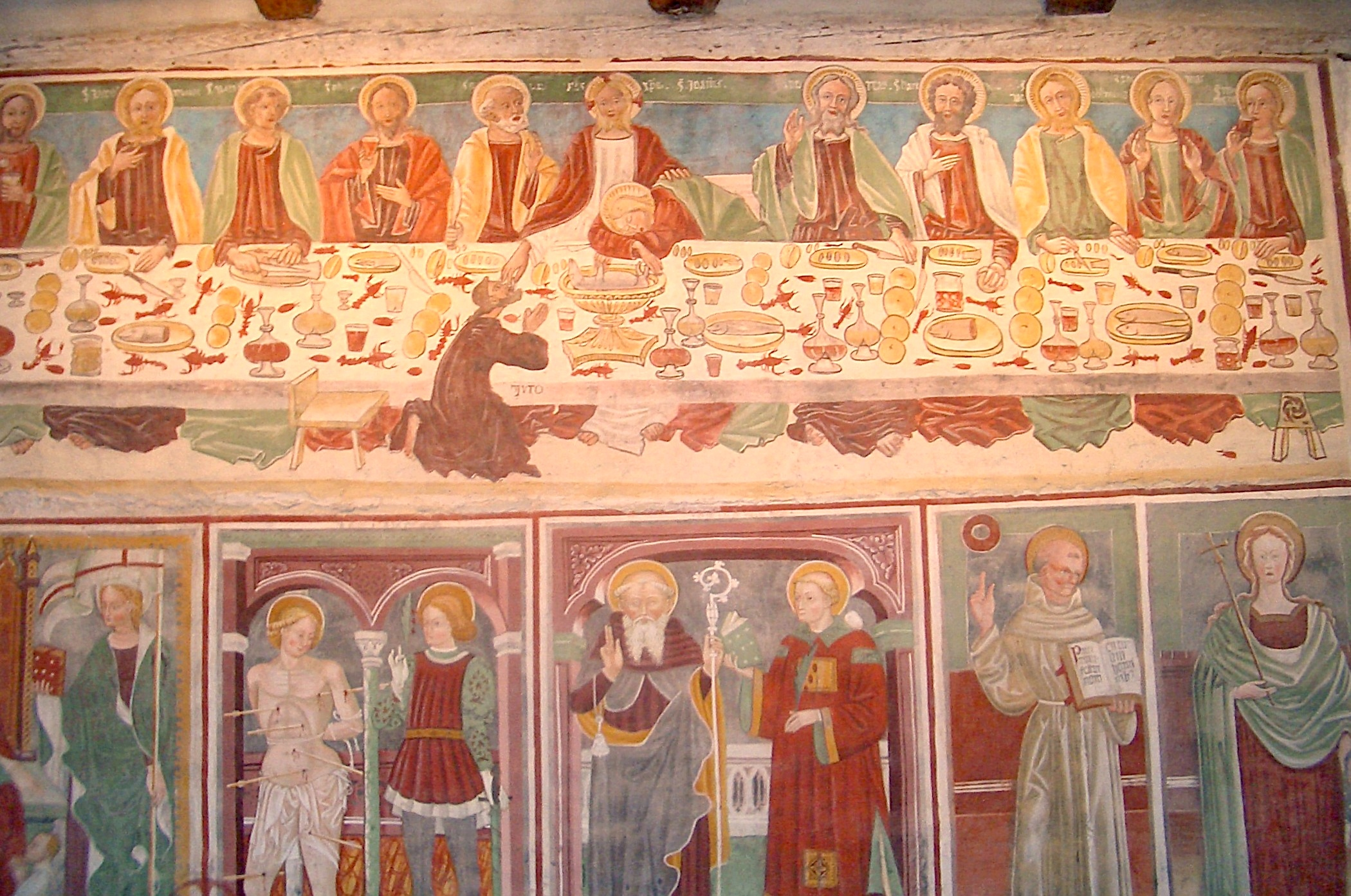 Antonio Baschenis (1450 ca. -1490 ca.), Last supper and Saints, fresco decoration of the right wall, Santo Stefano church, Carisolo